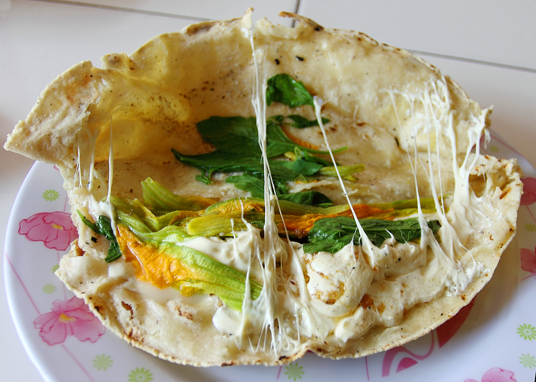 An (opened) Squash Flower or Flor de Calabaza Empanada in Oaxaca, Mexico.